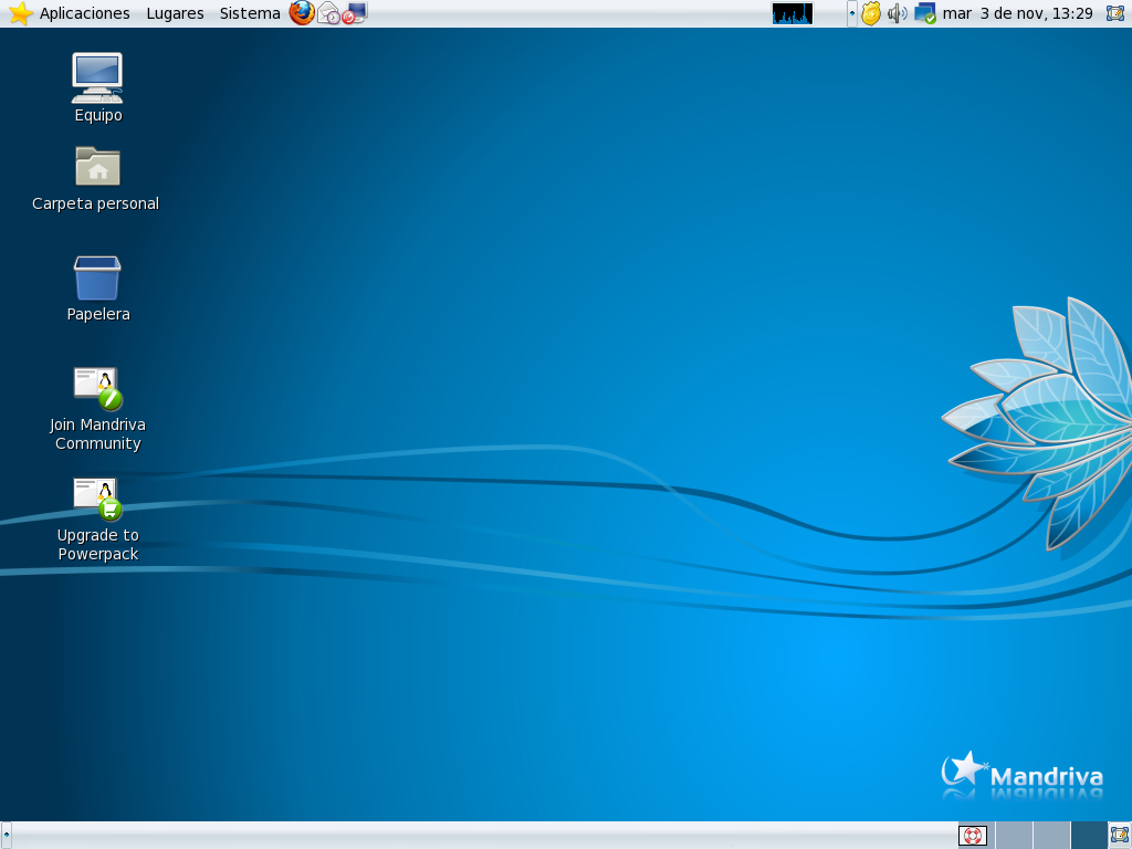 yo autorizo esta captura a cualquier persona